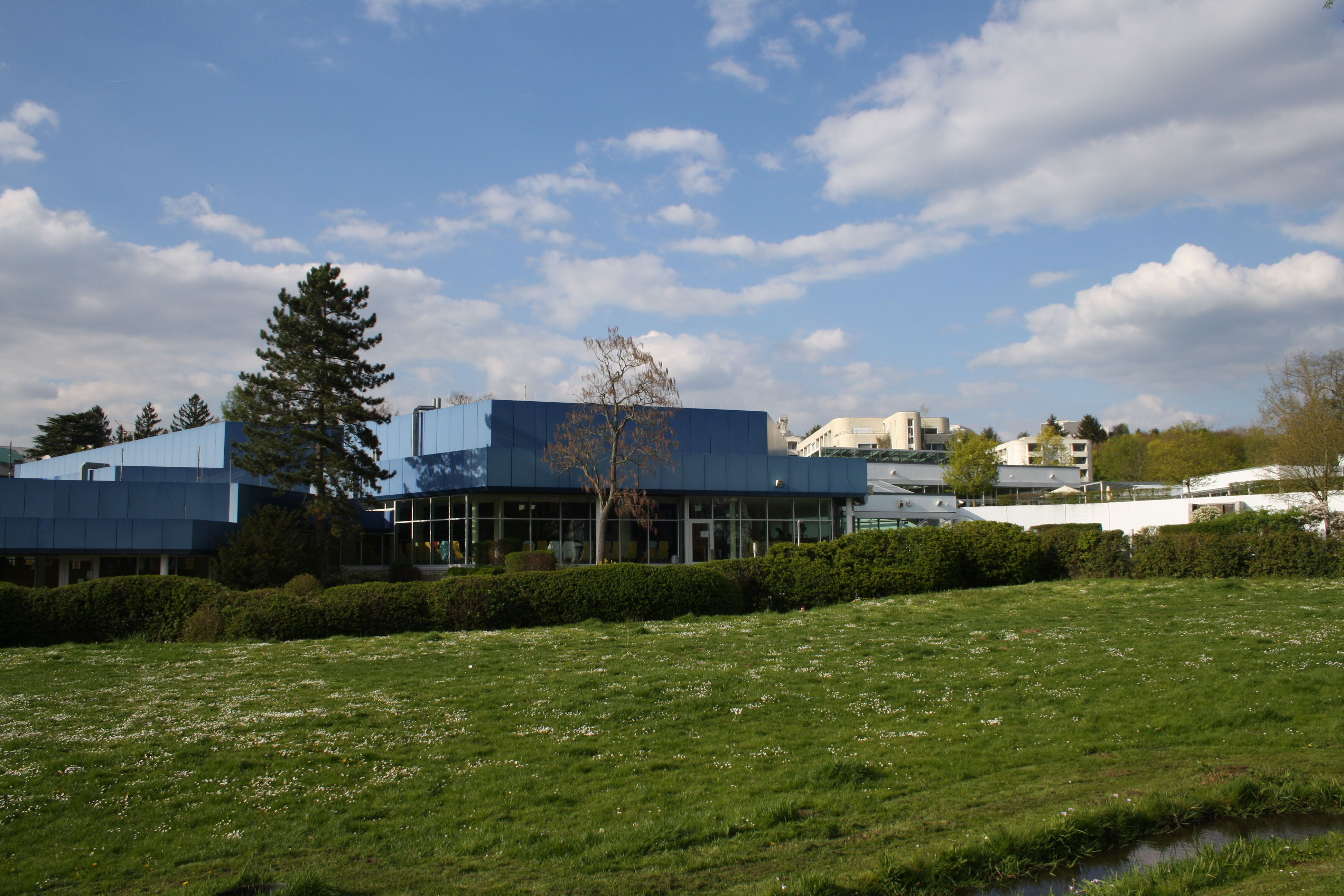 Germany, Thermalbad Aukamm (Wiesbaden)